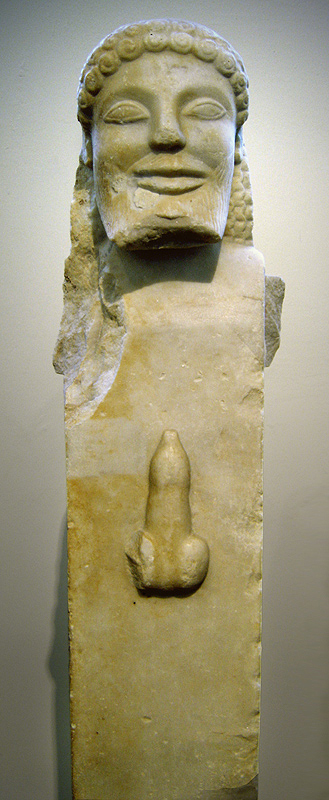 Herm with erect phallus. Marble, ca. 520 BC. From Siphnos.